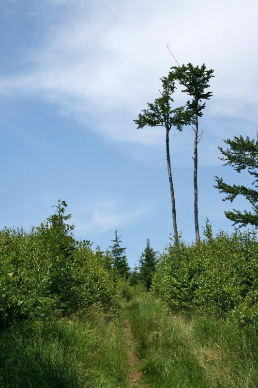 Kłodzka Mountain in Bardzkie Mountains, Sudety Mountains, Poland